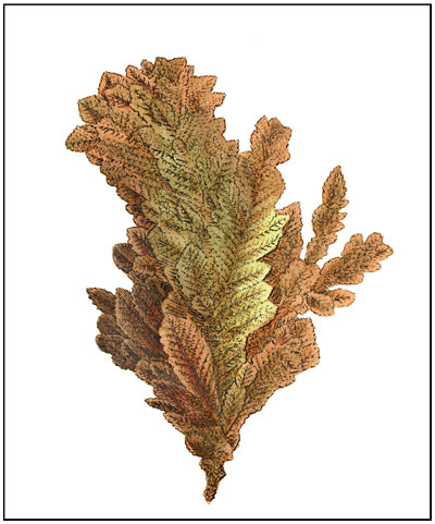 Native Copper from Huelvor near Redruth, Cornwall Hand-colored copper-plate engraving (1807) depicting natural-size a 2.5-inch specimen presumably in the collection of James Sowerby. Published as Plate 216, Volume 3, of Sowerby's British Mineralogy